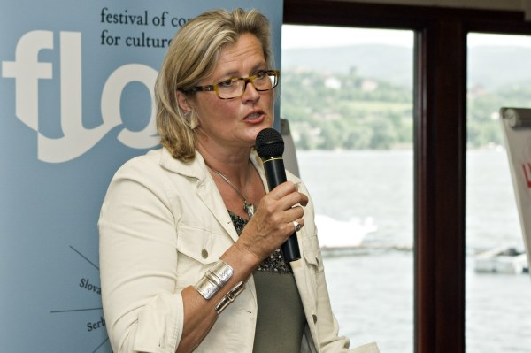 Ursula Plassnik, former Foreign Minister of Austria talking at the FLOW Festival of dialogue between culture and science 2008.